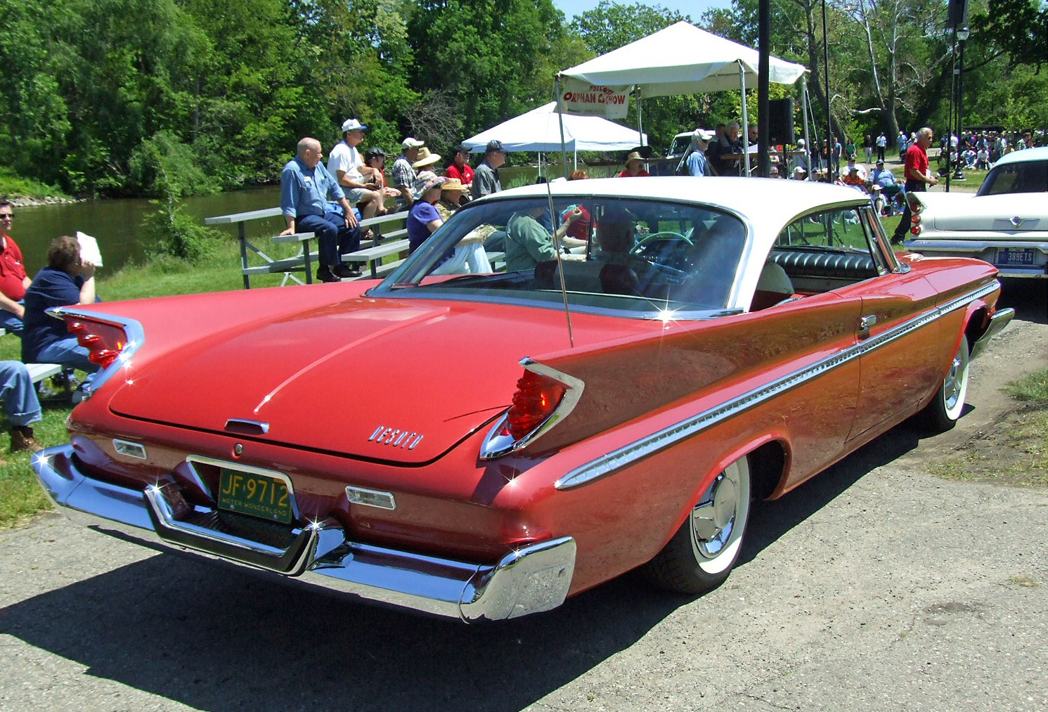 1960 DeSoto Fireflite2008 Orphan Car Show in Ypsilanti, Michigan